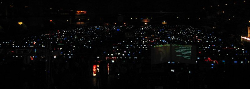 Overview of The Gathering 2005 computerparty in Hamar, Norway.